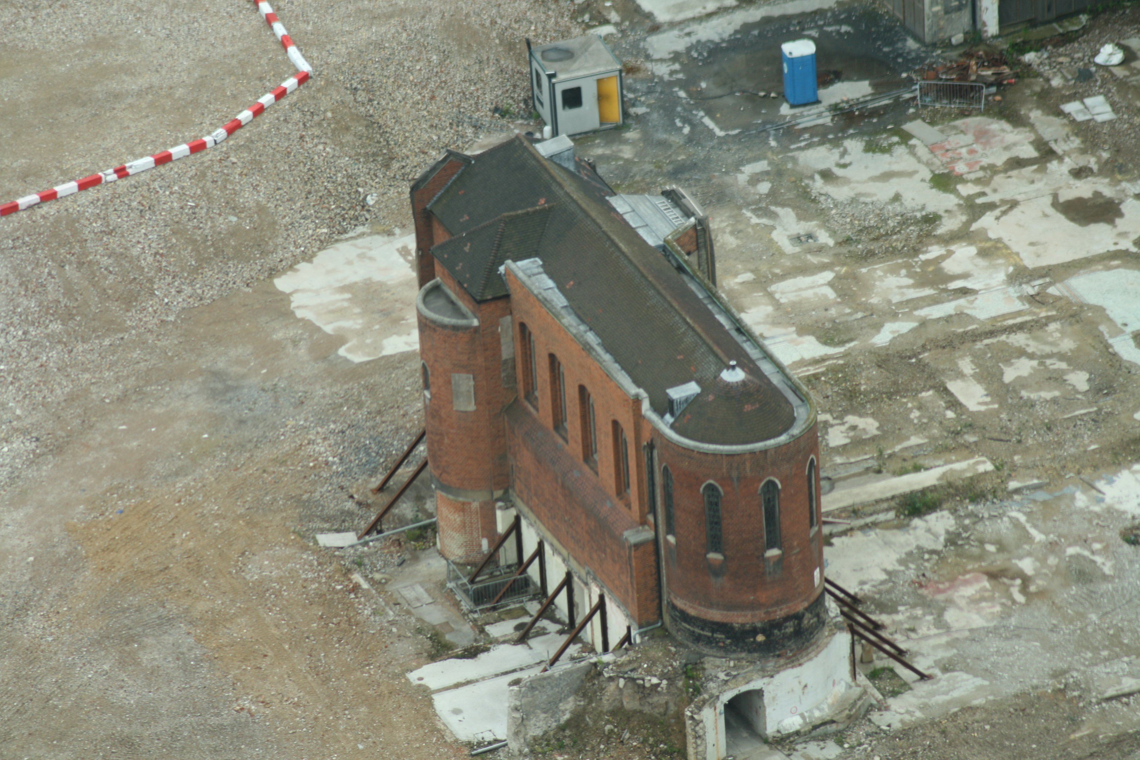 Grade II listed chapel built in 1891 in an Italian Gothic style has been kept while the rest of the hospital buildings (apart from the facade) have been demolished